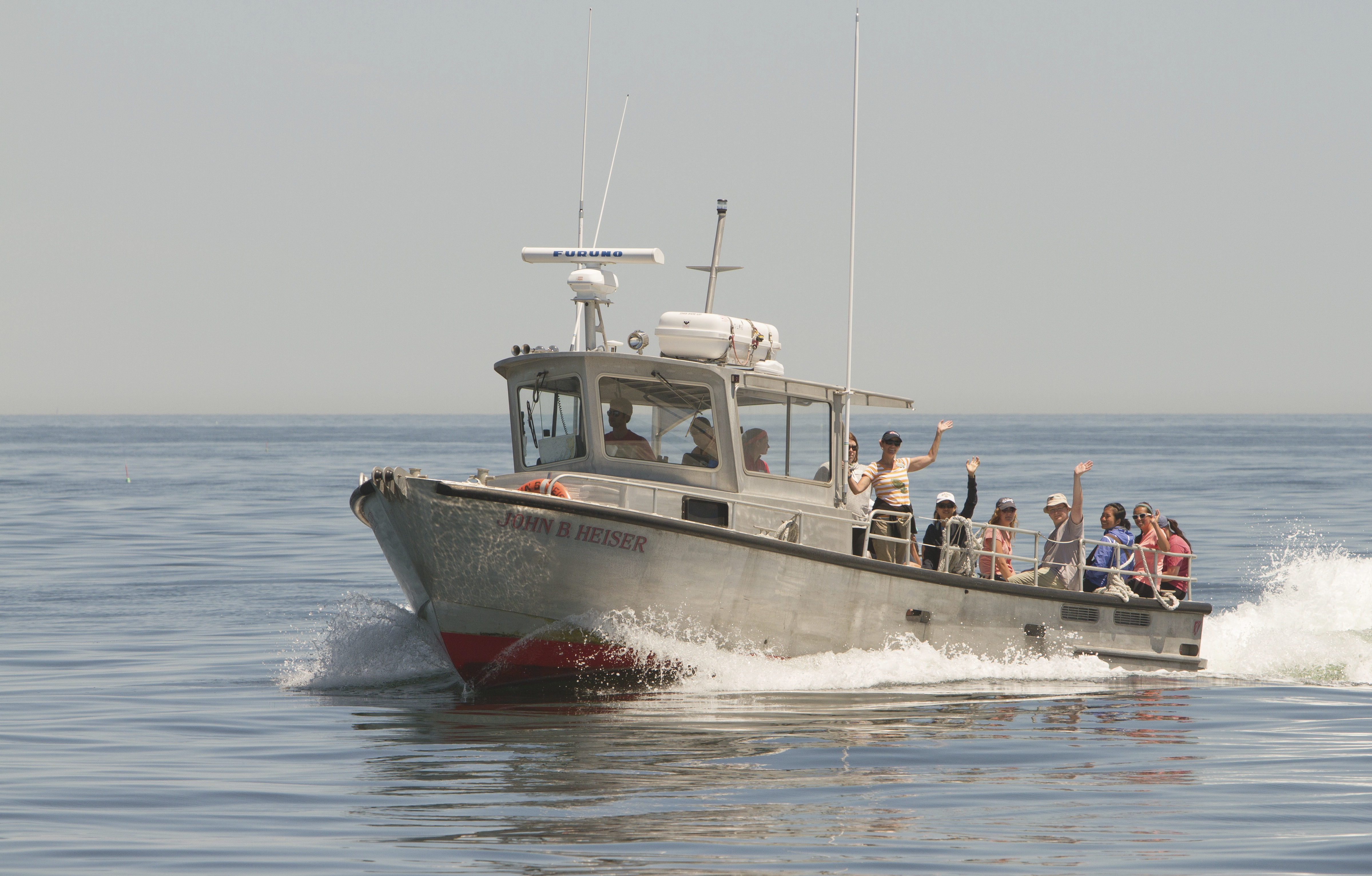 Shoals Marine Lab's R/V JB Heiser underway in the Gulf of Maine carrying passengers.